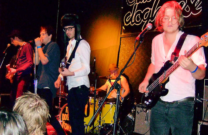 The Paddingtons at the Dundee Doghouse 16 November 2007